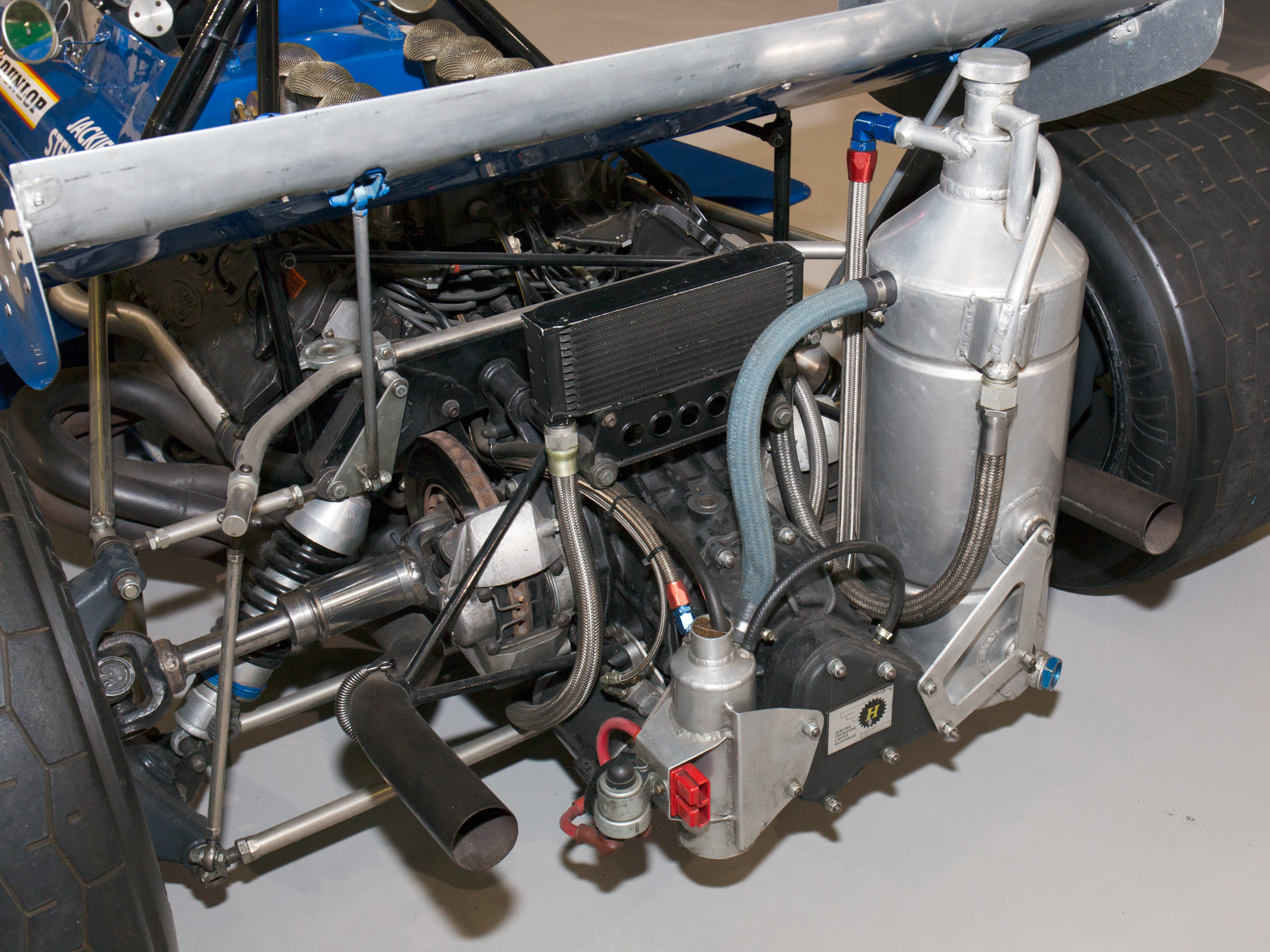 1970 March 701 of Tyrrell Racing